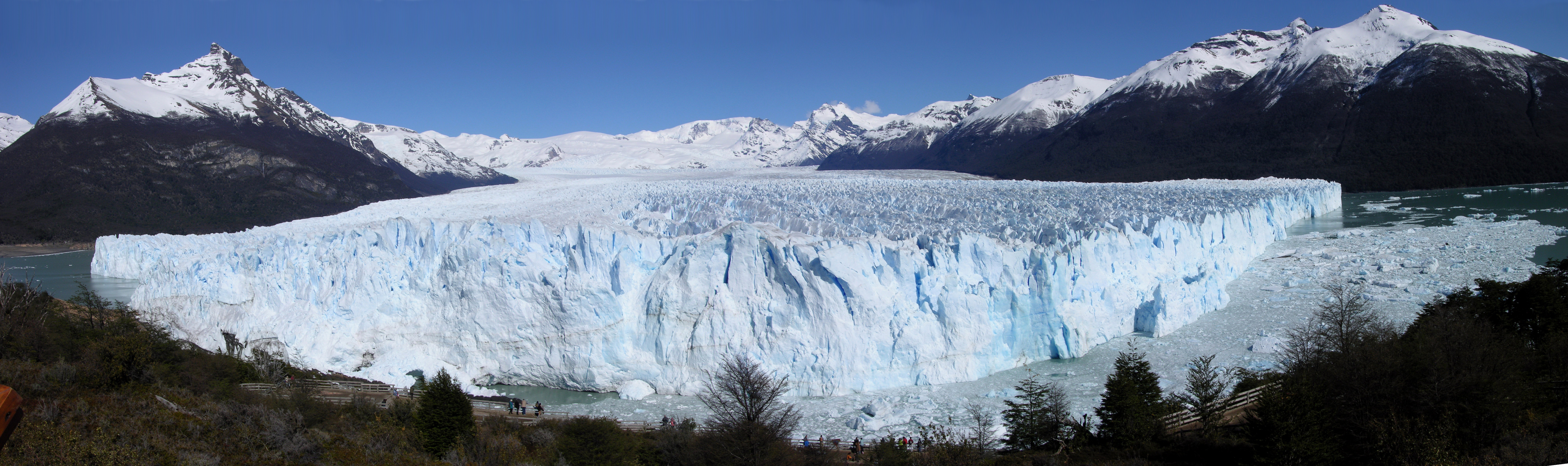 Panorama view on the Perito Moreno glacier, north of El Calafate Argentina. Courtesy of